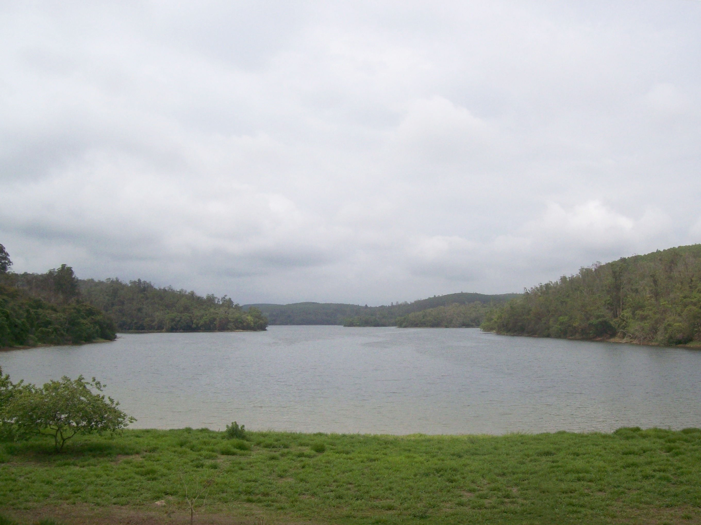 View of the Piau Lake, in Caratinga, Minas Gerais, Brazil.